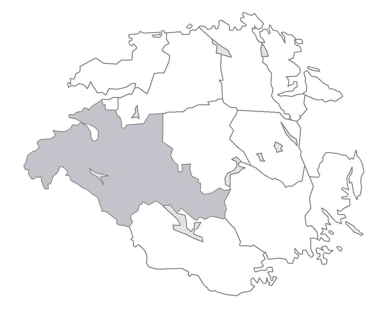 Map describing the location of Oppunda Hundred in Södermanland County, Sweden.